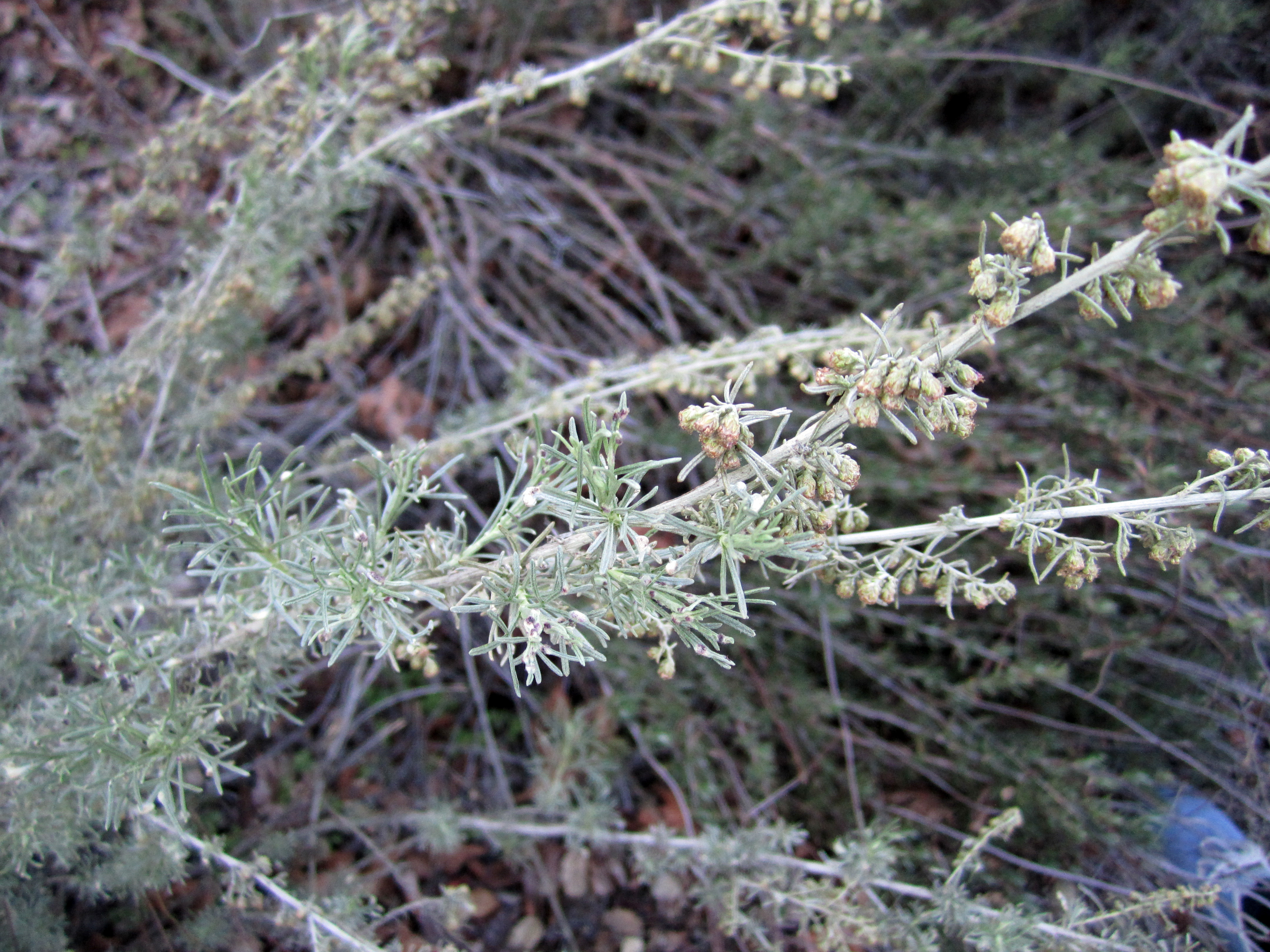 Botanical: Artemisia californica Common: California Sagebrush Location: Rancho Santa Ana Botanical Garden Date: 2010-12-01